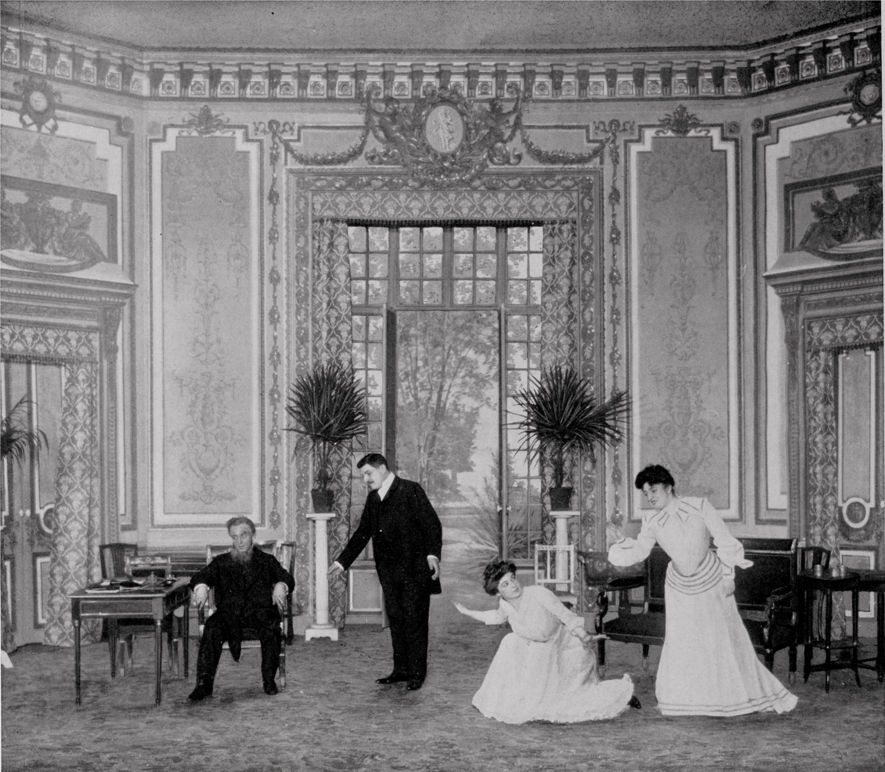 Amélie Diéterle is a French actress born in Strasbourg on February 20, 1871 and died in Cannes on January 20, 1941. She was legitimated in Paris in 1892 by Captain Louis Laurent, Knight of the Legion of Honor. Amélie Diéterle married in Vallauris on June 16th, 1930 with André Simon (1877-1965). Amélie Diéterle plays mainly at the Théâtre des Variétés in Paris during the Belle Époque. Amélie Diéterle plays the role of Réséda (kneeling on the photograph) in the theatre play, Madame la Présidente, of Paul Ferrier and Auguste Germain at the Théâtre des Bouffes-Parisiens in 1902.